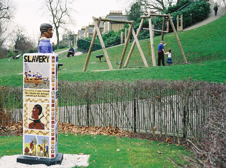 The Equiano monument in the lower park on Telegraph Hill, Lewisham, London. See also more information about the monument and about Equiano.